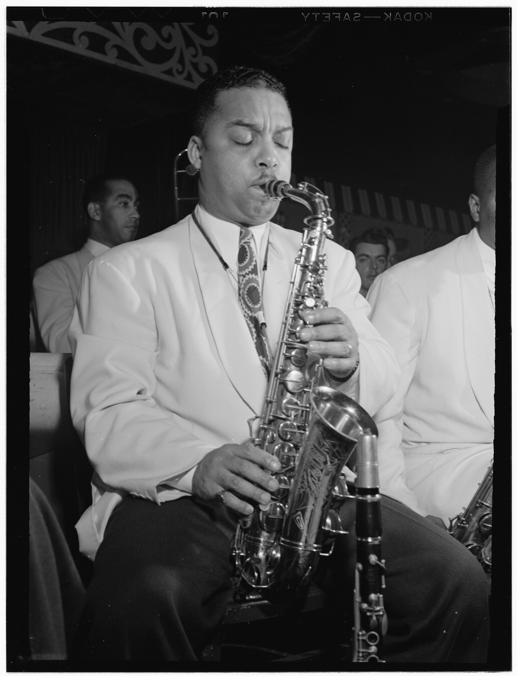 Russell Procope, Aquarium, New York, N.Y.